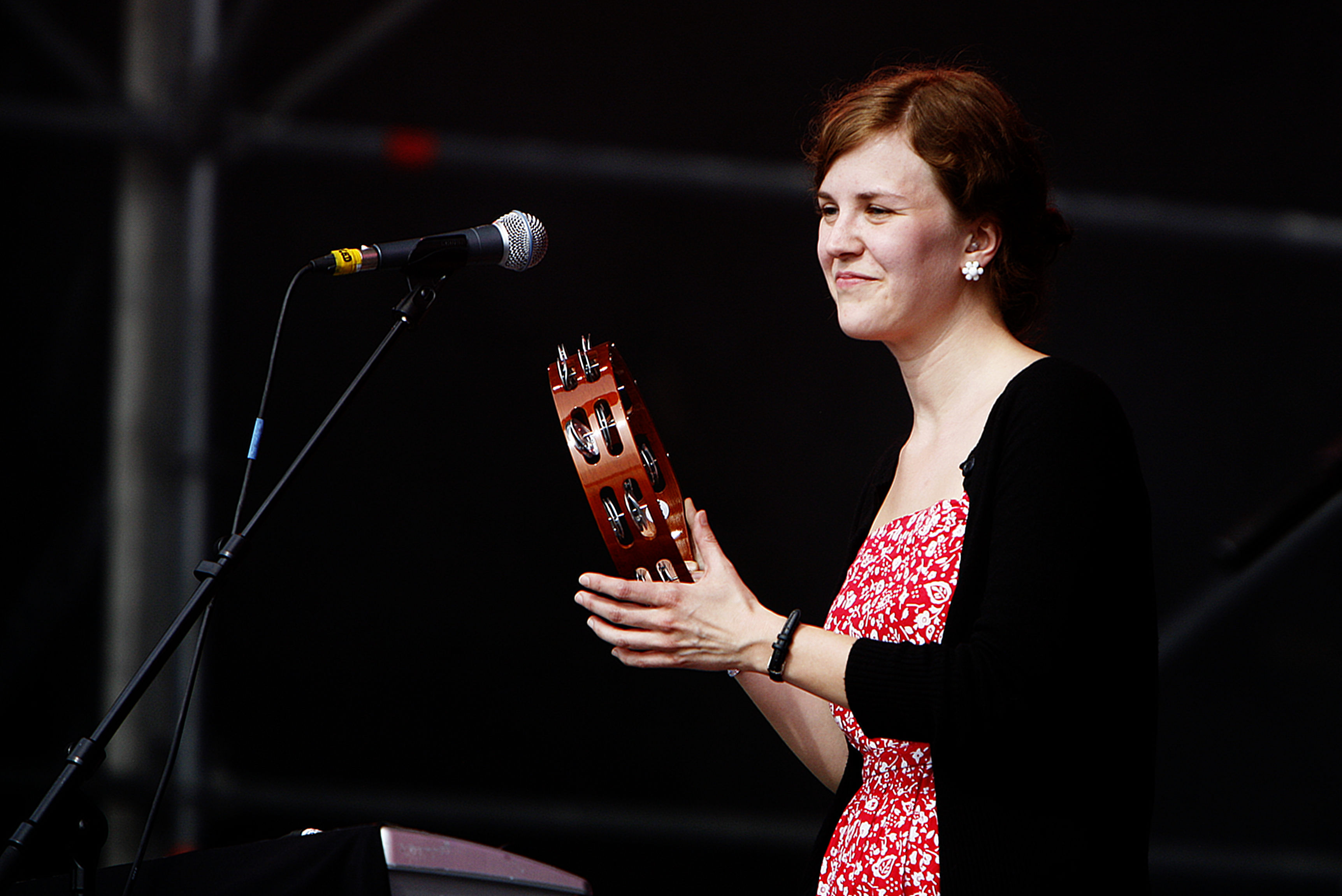 Loney, Dear at the Eurockéennes of 2007